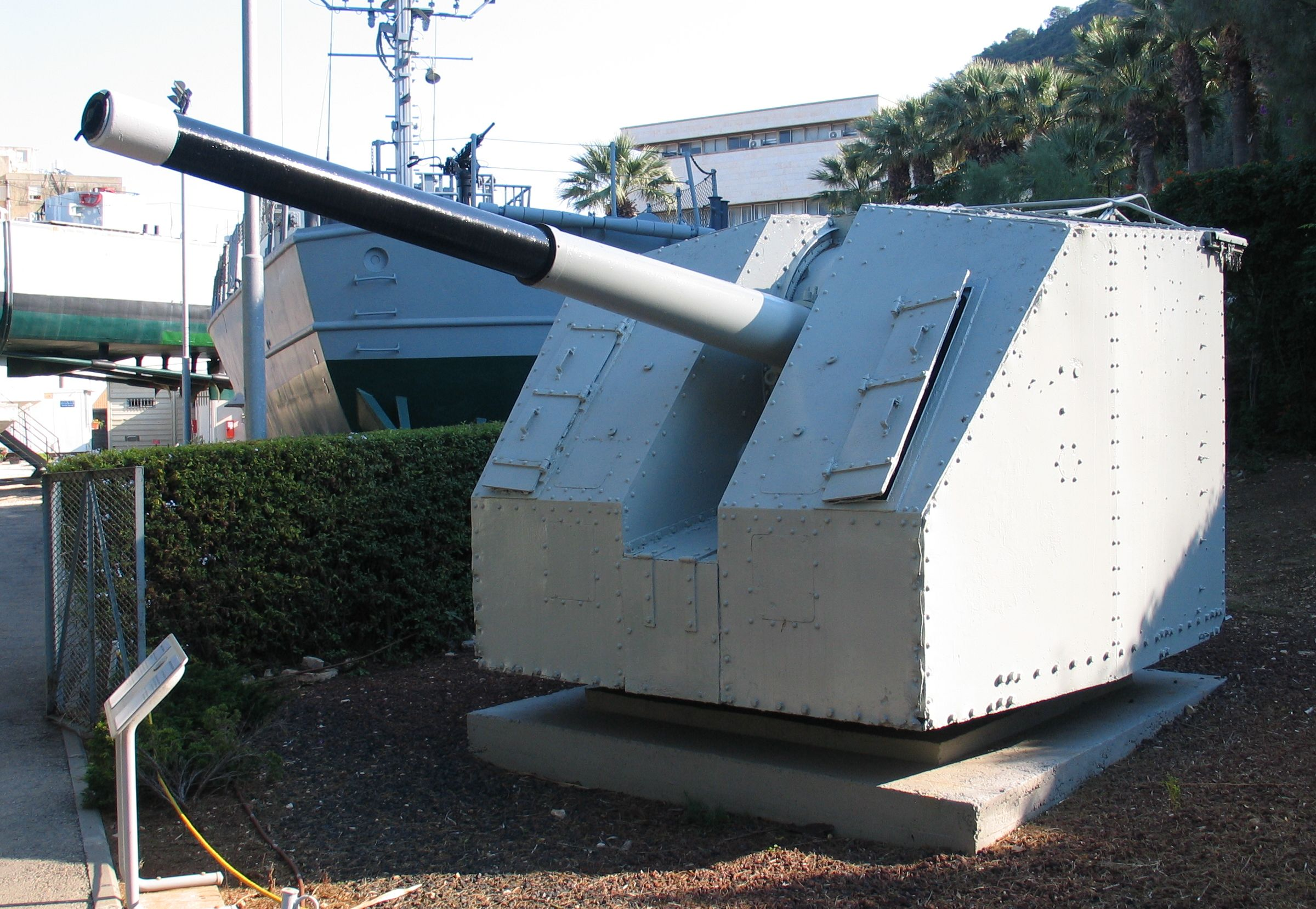 QF 4.5 inch L/45 Mk IV naval gun on mounting CP Mk V from INS Yaffo (K-42) (originally the British Z class destroyer HMS Zodiac), in the Clandestine Immigration and Naval Museum, Haifa, Israel.